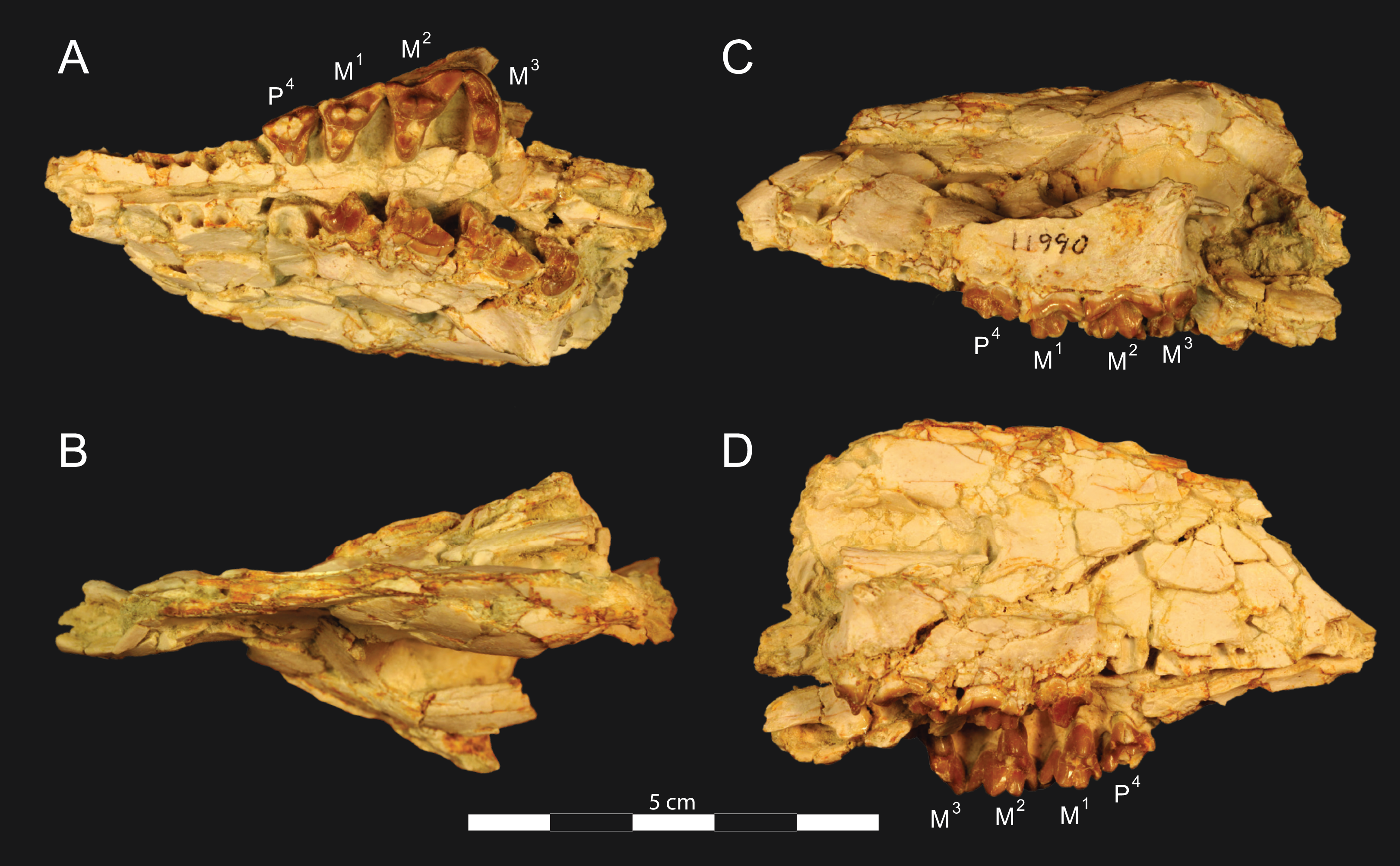 rostrum of Brychotherium DPC 11990, rostrum with left and right P4–M3and alveoli for right and left I2–P3. A: ventral view; B: dorsal view; C: left lateral view; D: right lateral view.